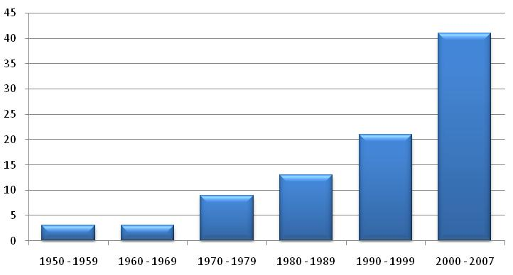 Sovereign wealth fund in the world